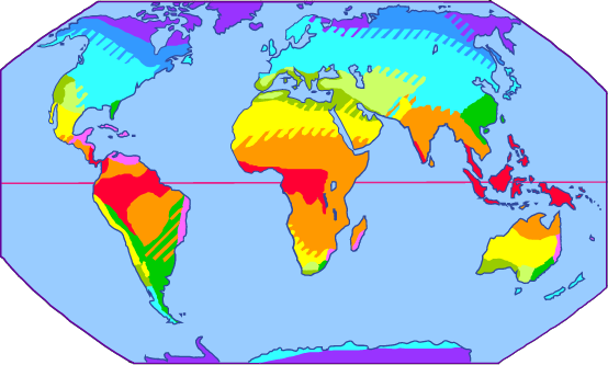 This is the map of Flohn climate classification.